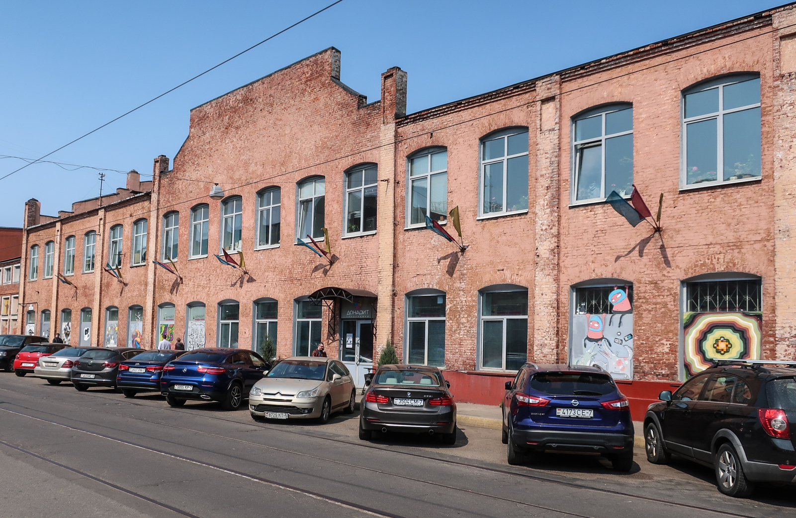 25 Kastryčnickaja street (Minsk, Belarus)